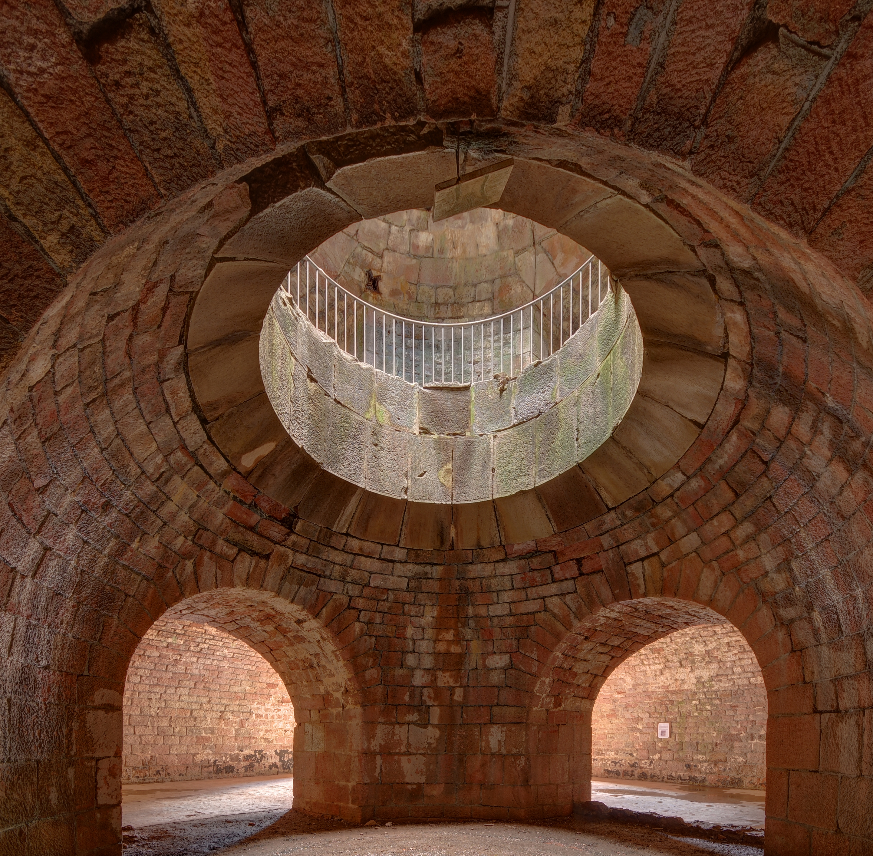 This photograph was taken with a Nikon D300 Fort de Giromagny : au niveau du monte-charge des tourelles Mougin (HDR).